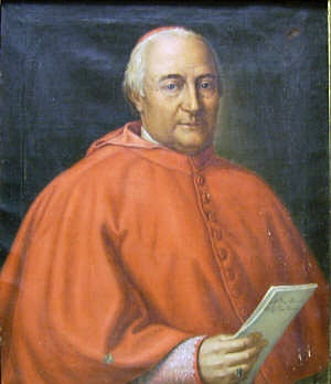 Kardinal Fabrizio Turriozzi (1755-1826)